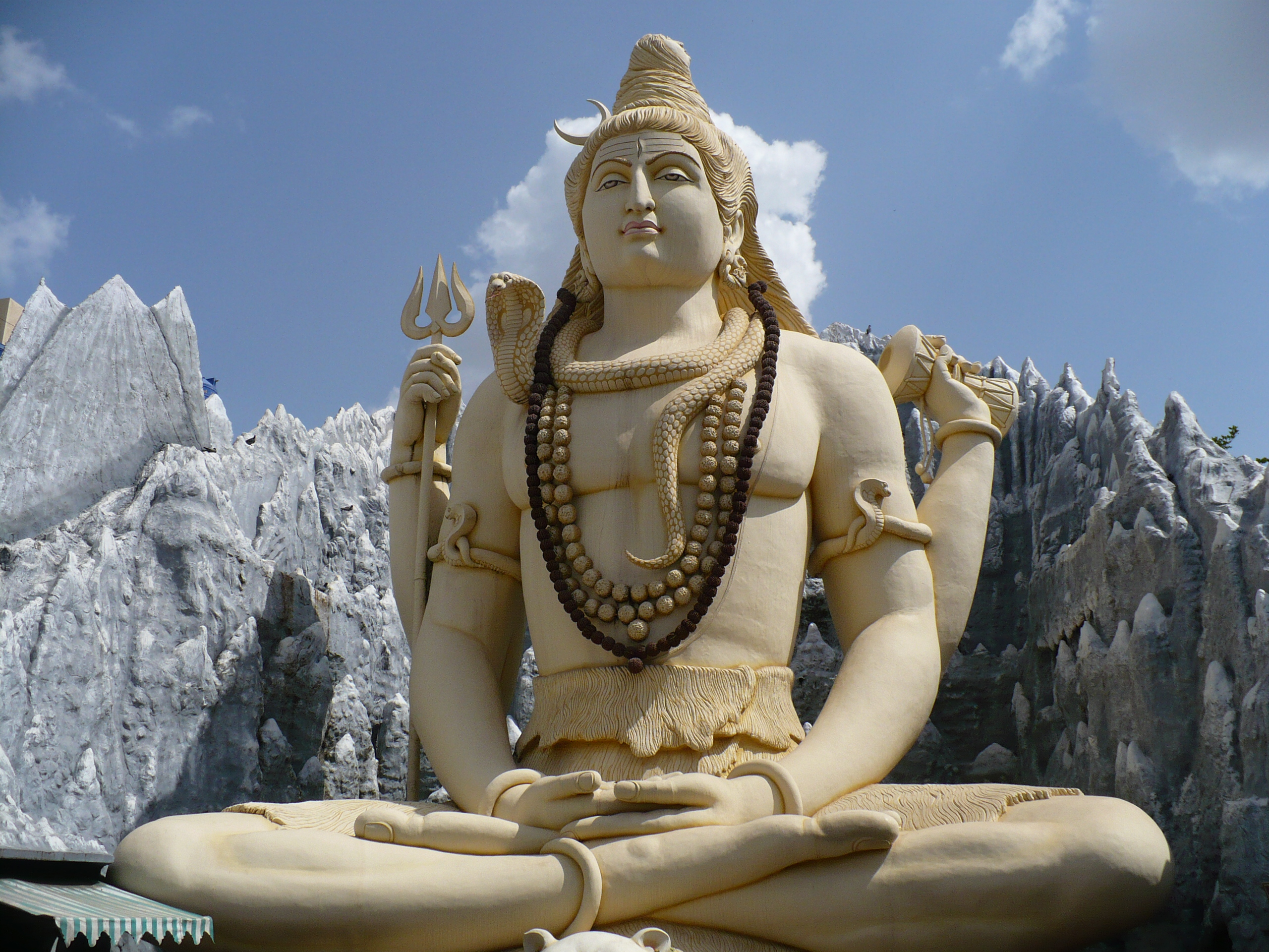 Shiva statue in Kempfort Shiv Temple, Bangalore